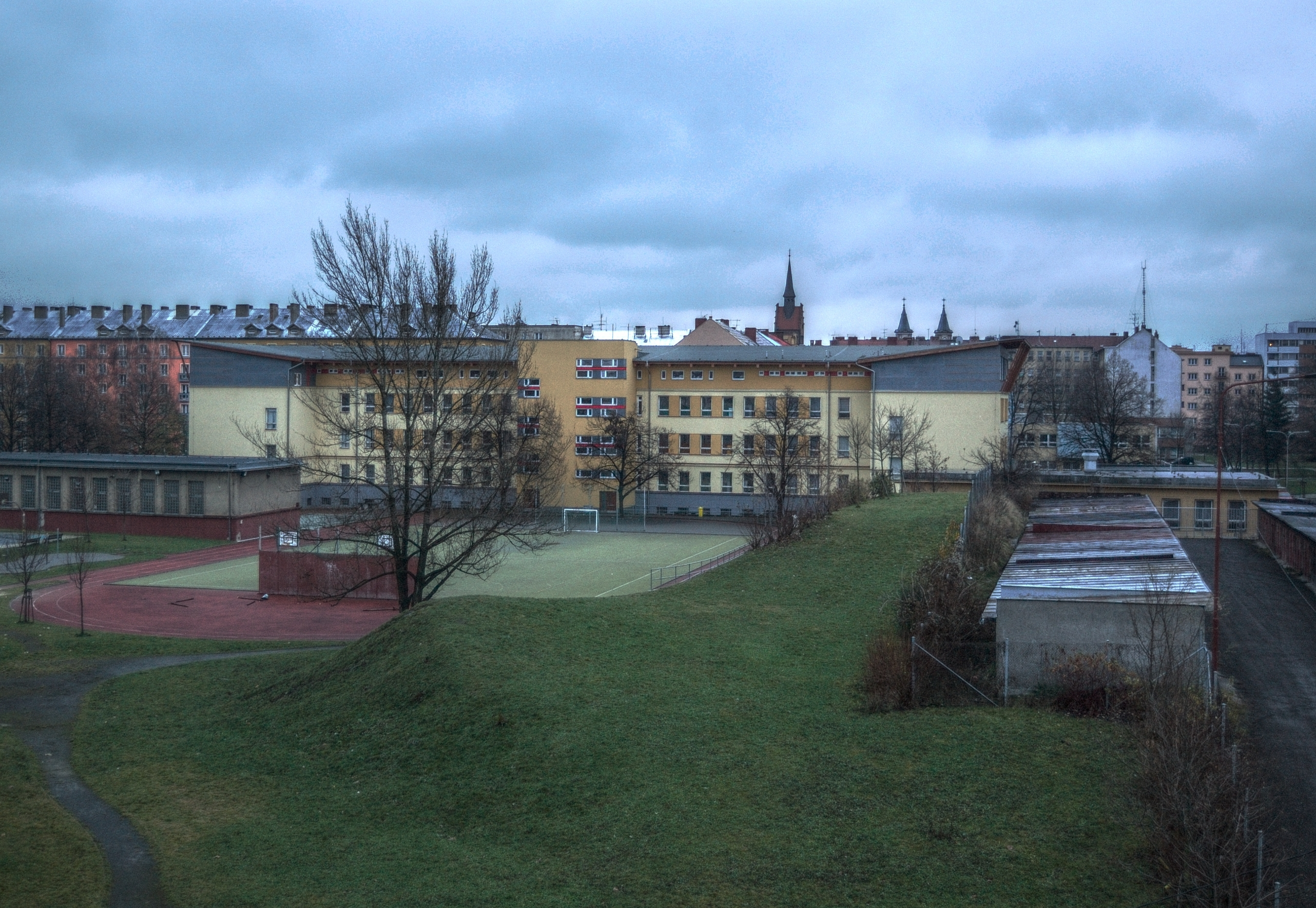 1st International school of Ostrava, Czech republic.